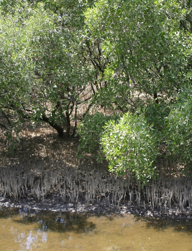 Avicennia germinans in Guanacaste, Costa Rica. Author: Cody Hinchliff, 2004